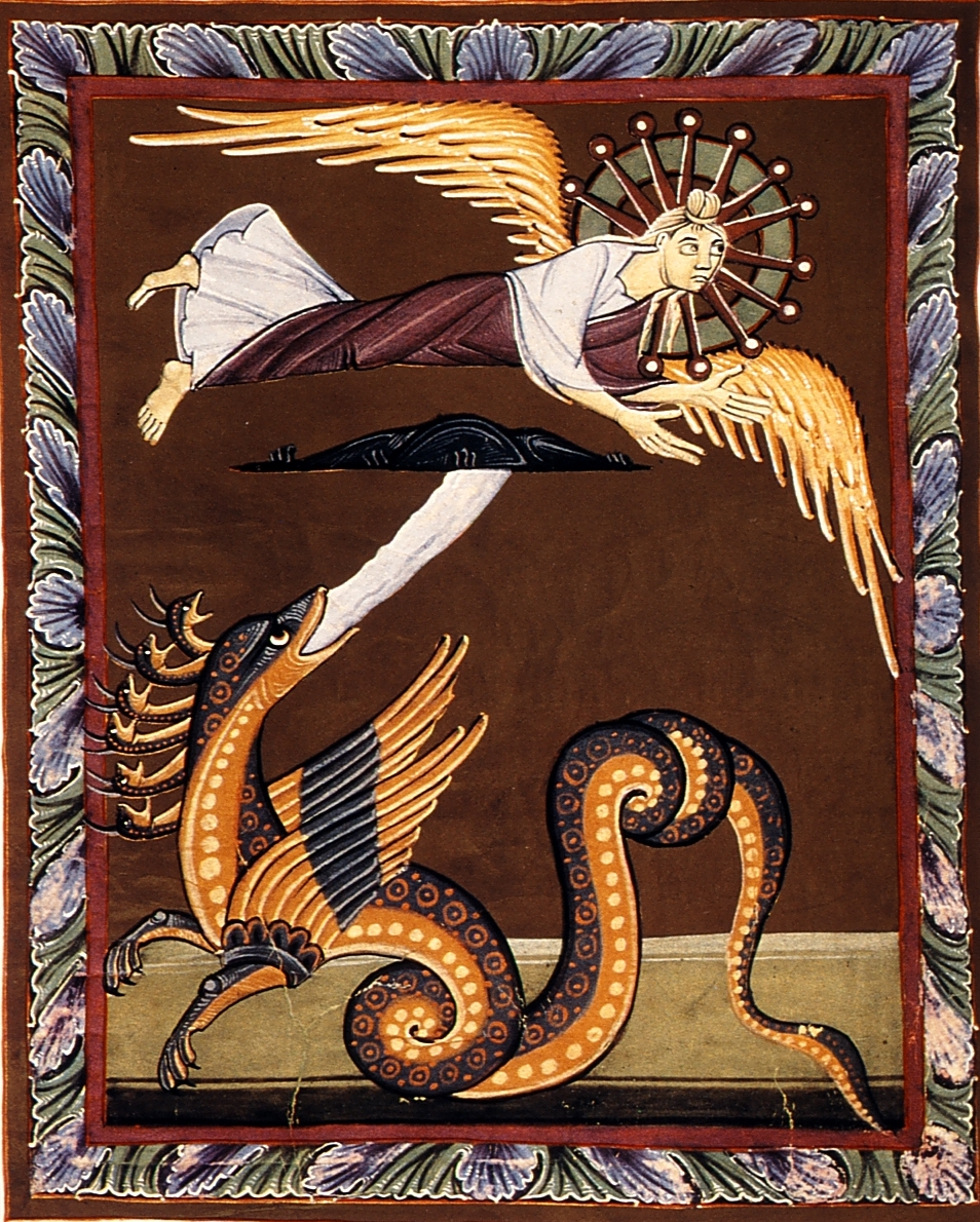 The dragon pursuing the woman in the wilderness